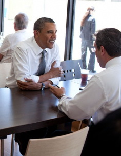 President Barack Obama talks with Puerto Rican Senator Alejandro Garcia Padilla during a lunch stop at Kasalta, a local restaurant in the Ocean Park neighborhood of San Juan, Puerto Rico, June 14, 2011.